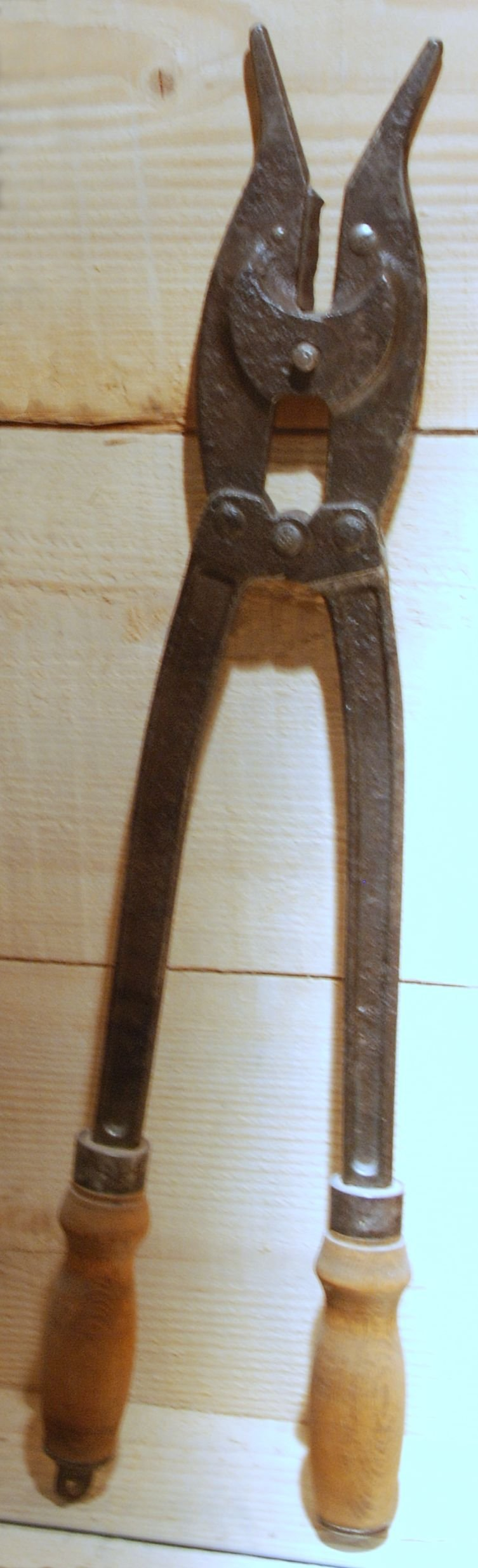 German military barbed wire cutters, the World War I; the Verdun Memorial, Fleury-devant-Douaumont, France